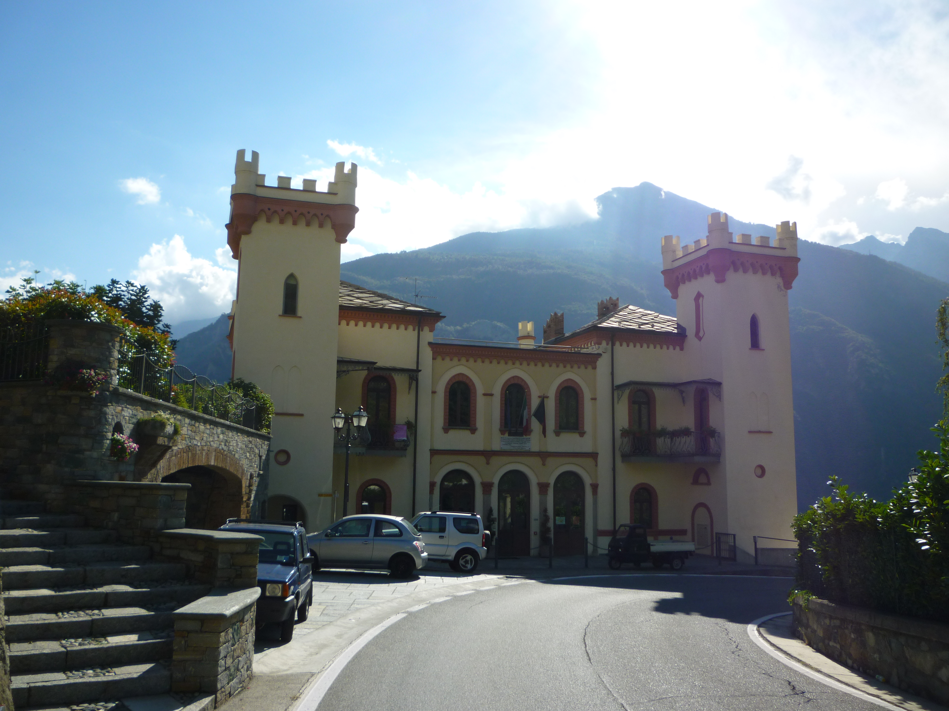 Baraing Castle in Pont-Saint-Martin (Aosta Valley, Italy)